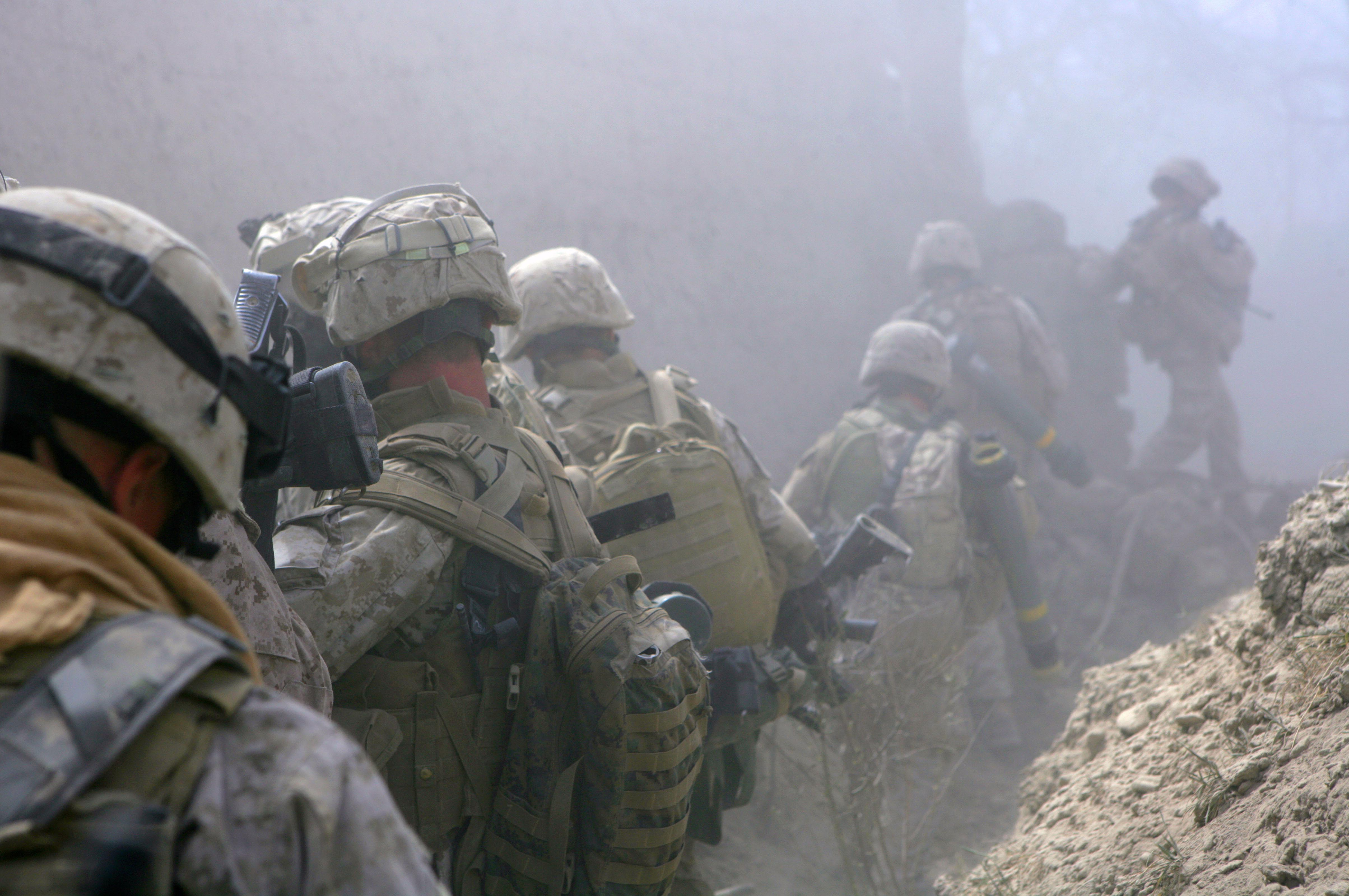 U.S. Marines take cover from a controlled detonation of explosives during a combat operation in the abandoned village of Now Zad, Helmand province, Islamic Republic of Afghanistan, April 3. The residents of Now Zad were forced to abandon their homes nearly three years ago out of fear for their lives due to the strong presence of insurgents. By conducting combat operations here, Marines are bringing Now Zad closer to the reintroduction of Afghan-led governance. The Marines of Company L, 3rd Battalion, 8th Marine Regiment (Reinforced), the ground combat element of Special Purpose Marine Air Ground Task Force - Afghanistan, have served in Now Zad since November 2008. SPMAGTF-A is committed to assisting the Government of the Islamic Republic of Afghanistan with providing security to the Afghan people.